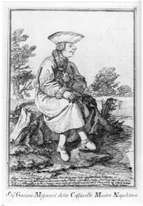 image dates from c1740